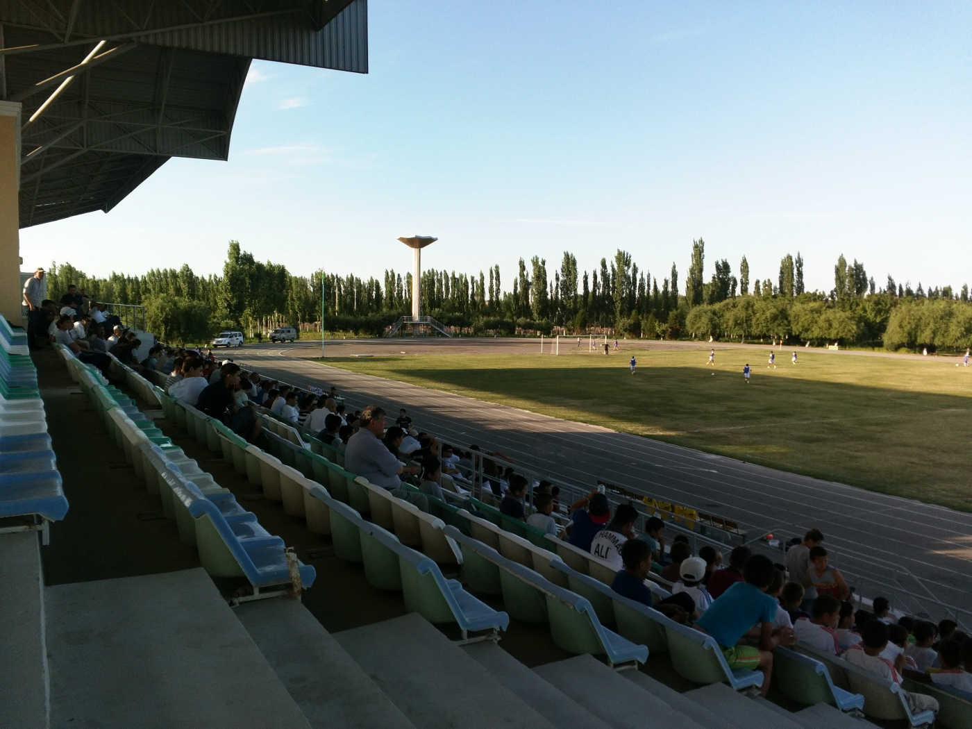 stadion UOZSK